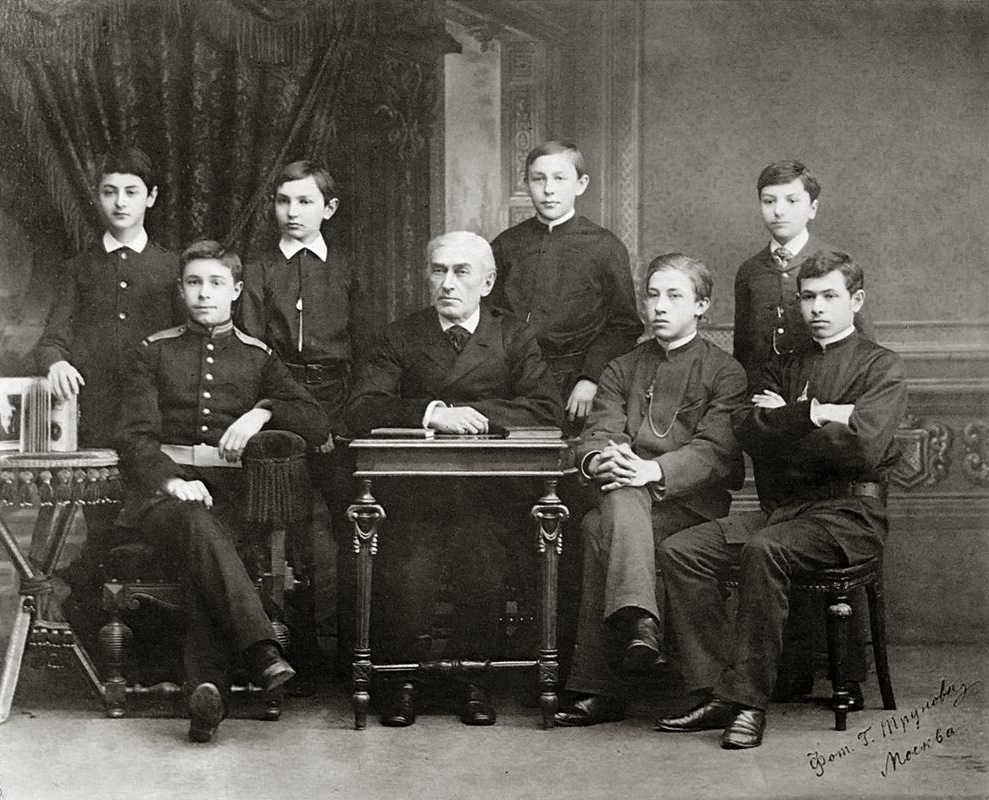 Nikolai Zveref and students, from left to right, Samuelson, Scriabin, Maximov, Rachmaninoff, Chernyaev, Keneman, and Pressman.